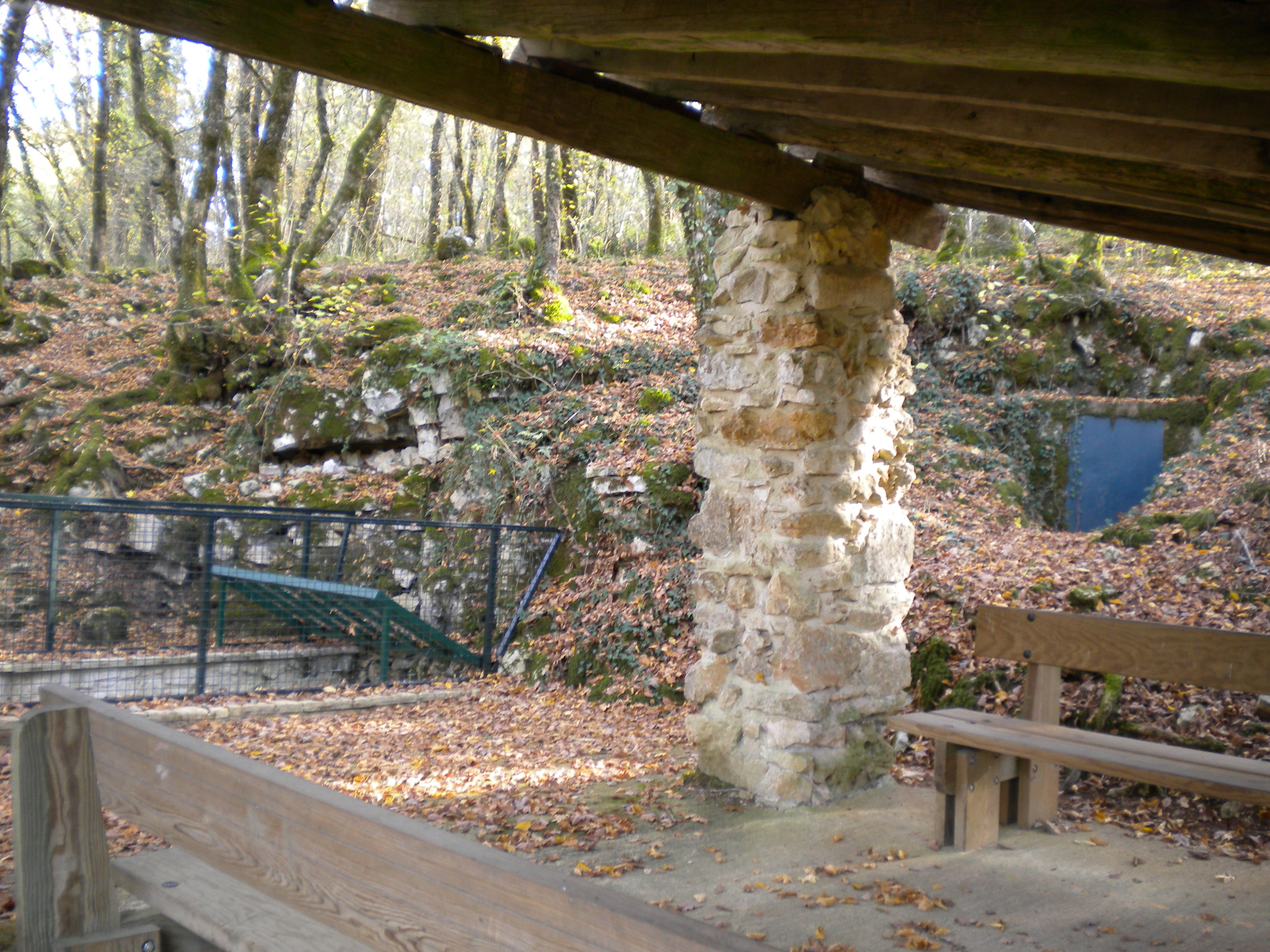 The two entries to the Villars Cave in Villars, Dordogne, France. On the right the original entry of the discovery, which is closed now. On the left steps leading down to the new entry.